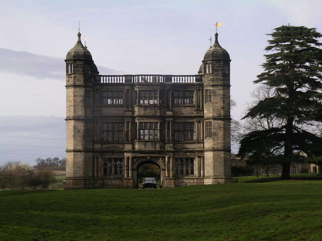 Tixall Gatehouse This image was taken from the Geograph project collection. See this photograph's page on the Geograph website for the photographer's contact details. The copyright on this image is owned by stephen betteridge and is licensed for reuse under the Creative Commons Attribution-ShareAlike 2.0 license. Attribution: stephen betteridge